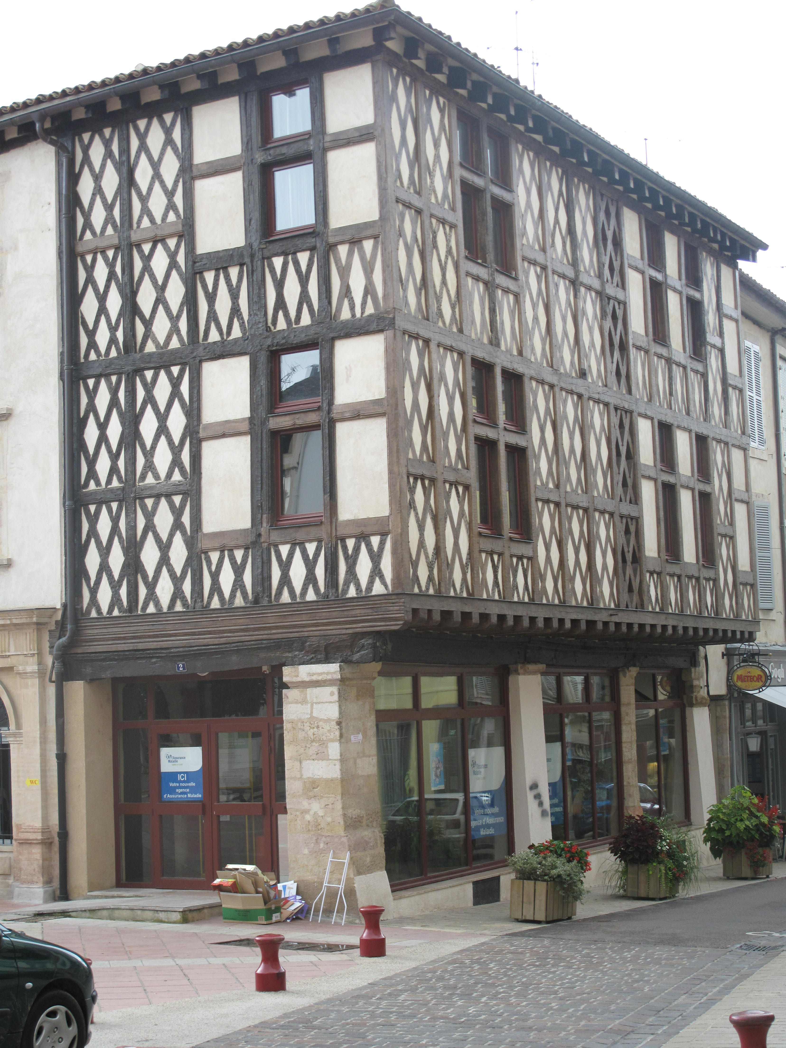 Logis de la Tête Noire (=Black head home) in the main street (rue de la République) of Tournus (Saône-et-Loire, France). It has been the post office and the tourism office.